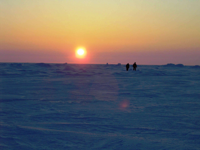 Image of Stargate: Continuum cast at Arctic shooting location from US Navy